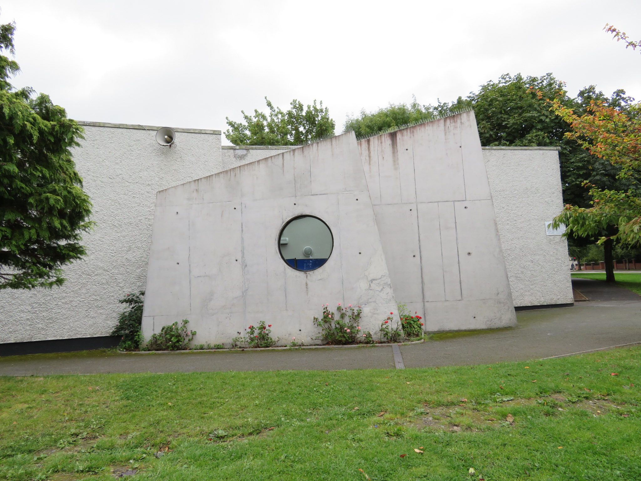 Saint Colmcille's Church in Knocklyon, Dublin.